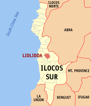 Map of Ilocos Sur showing the location of Lidlidda